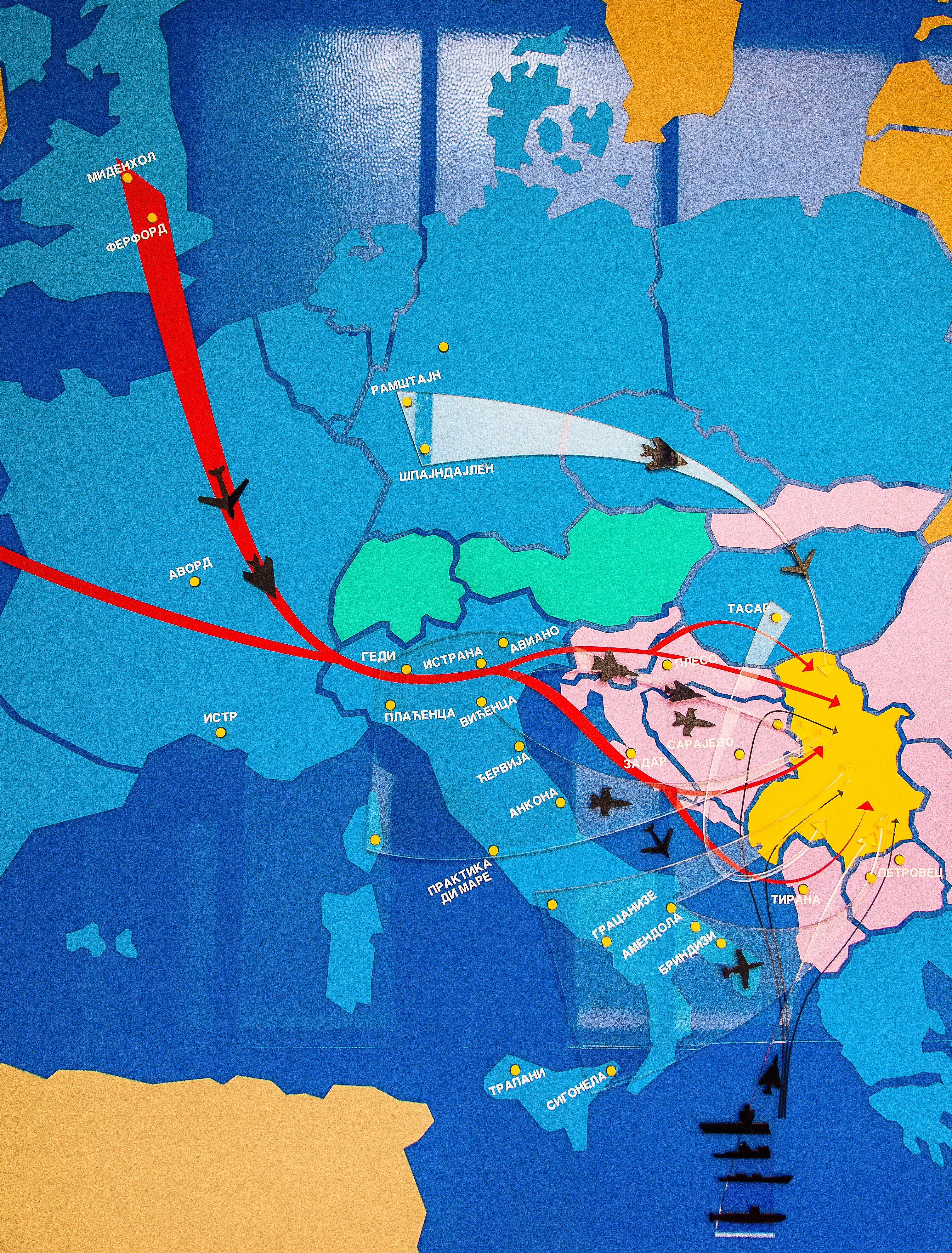 NATO agression on Yugoslavia 1999